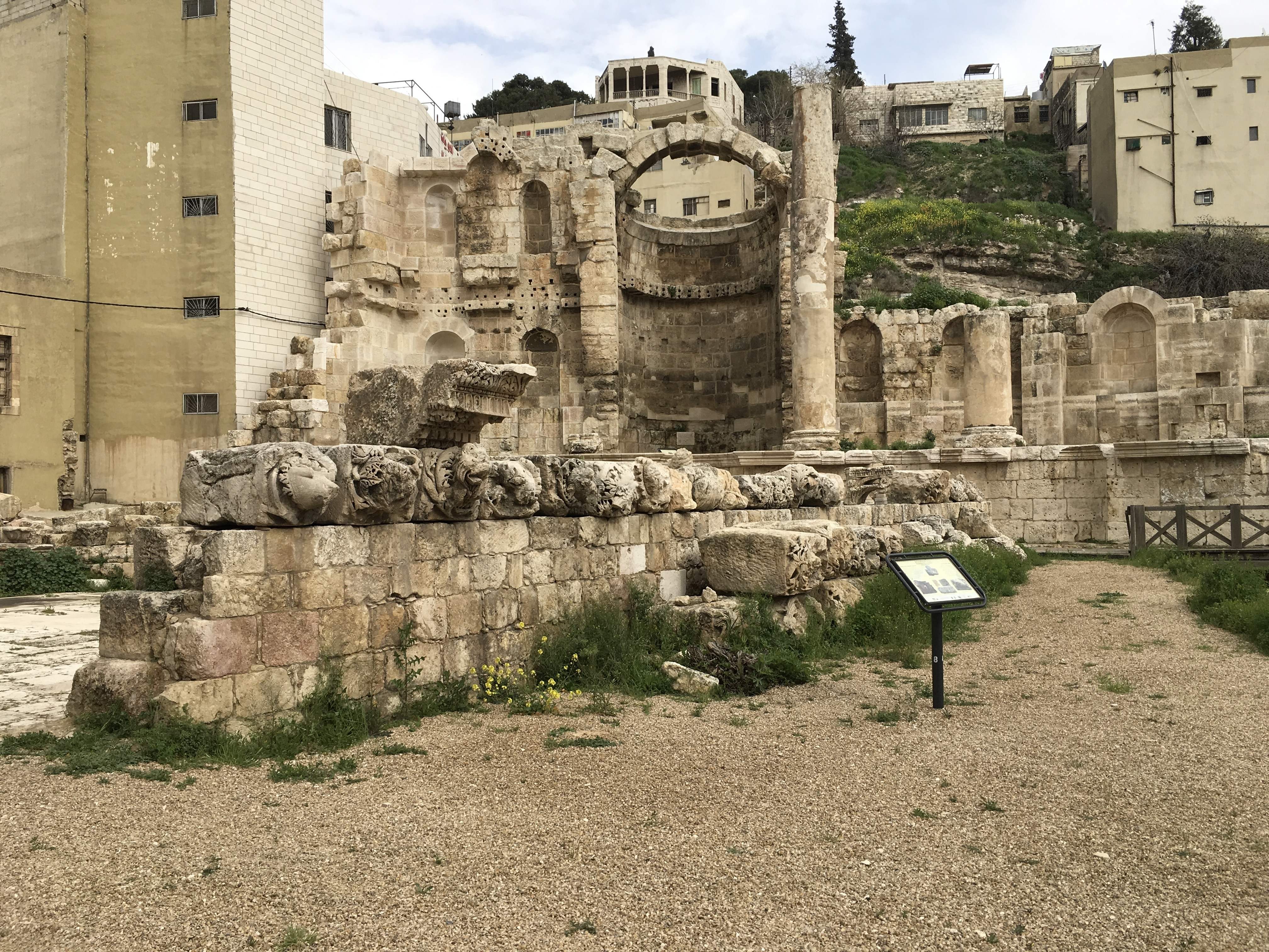 Amman Nimphaeum Northern apse